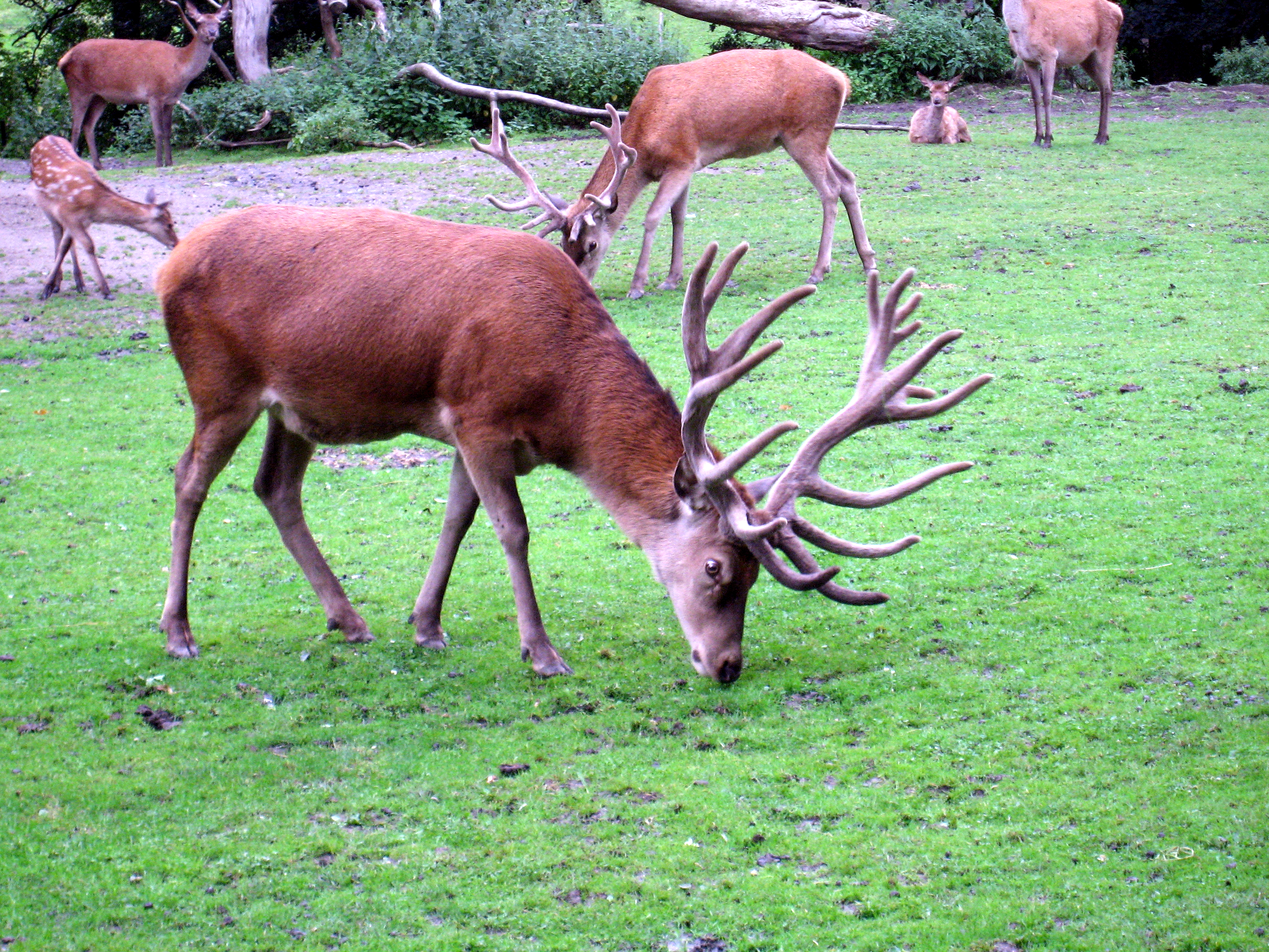 Dortmund, Tierpark, Rotwild (Cervus elaphus)